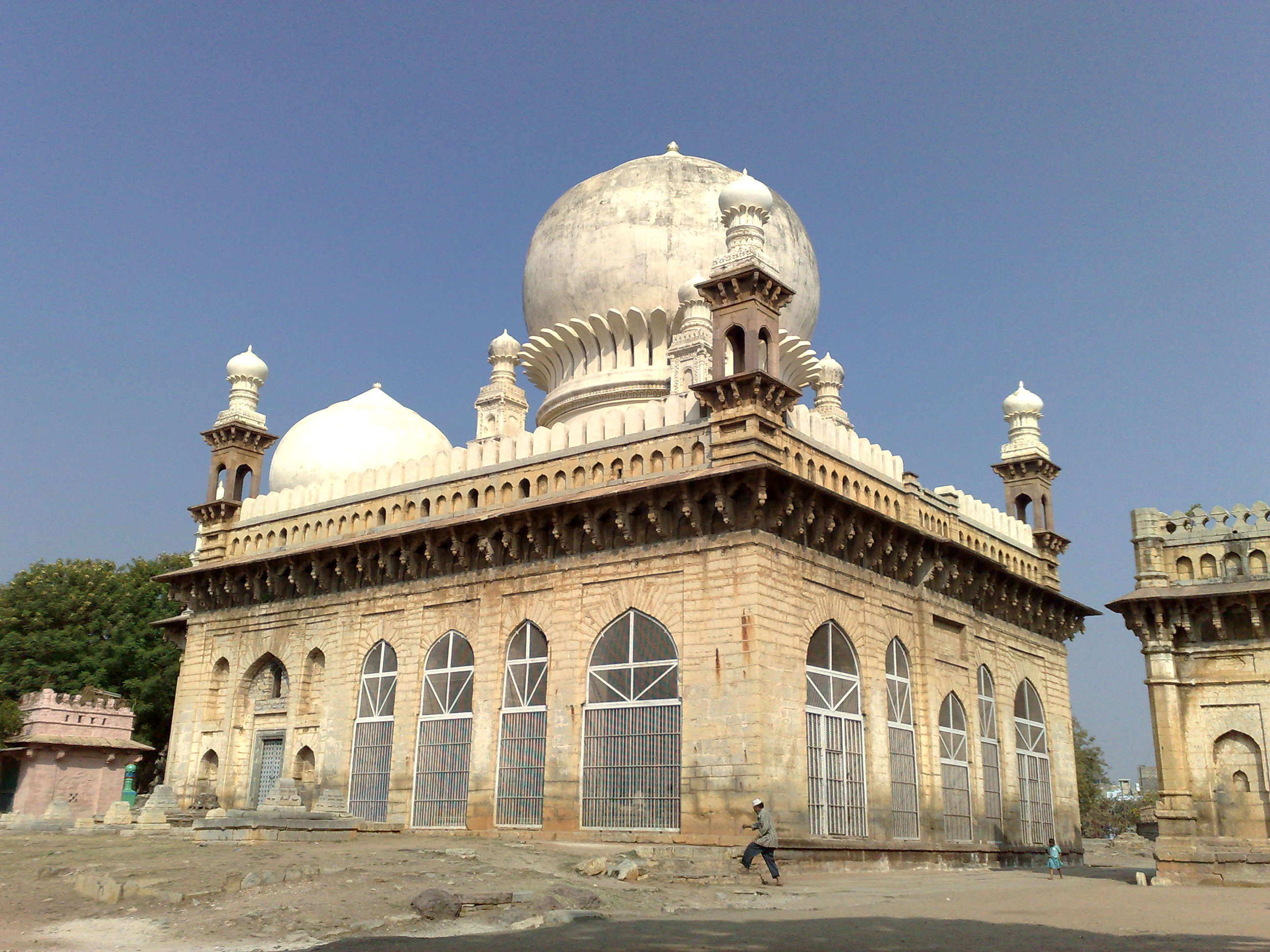 400 yrs old